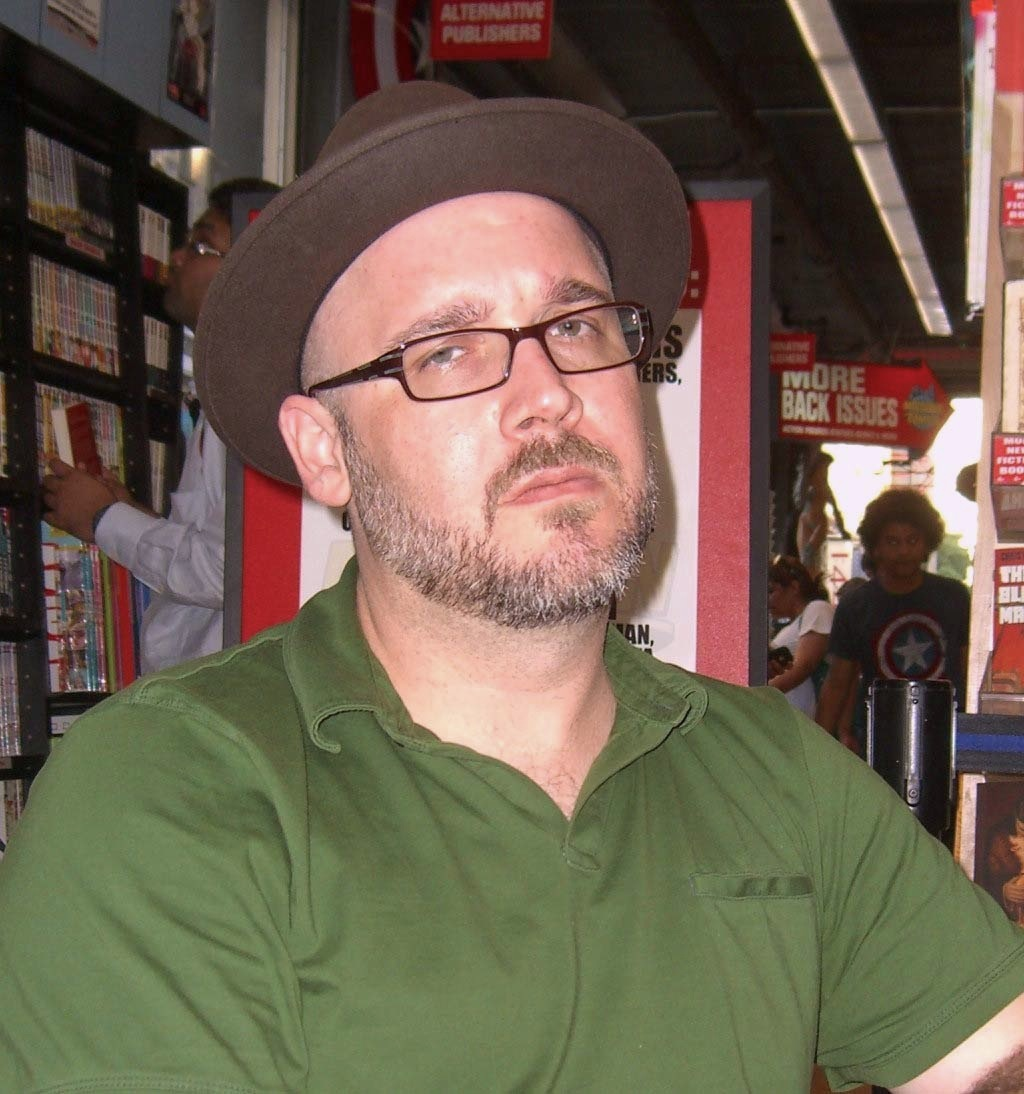 Writer Ed Brubaker at a book signing at Midtown Comics Times Square in Manhattan, June 21, 2010. This photo was created by Luigi Novi. It is not in the public domain, and use of this file outside of the licensing terms is a copyright violation.